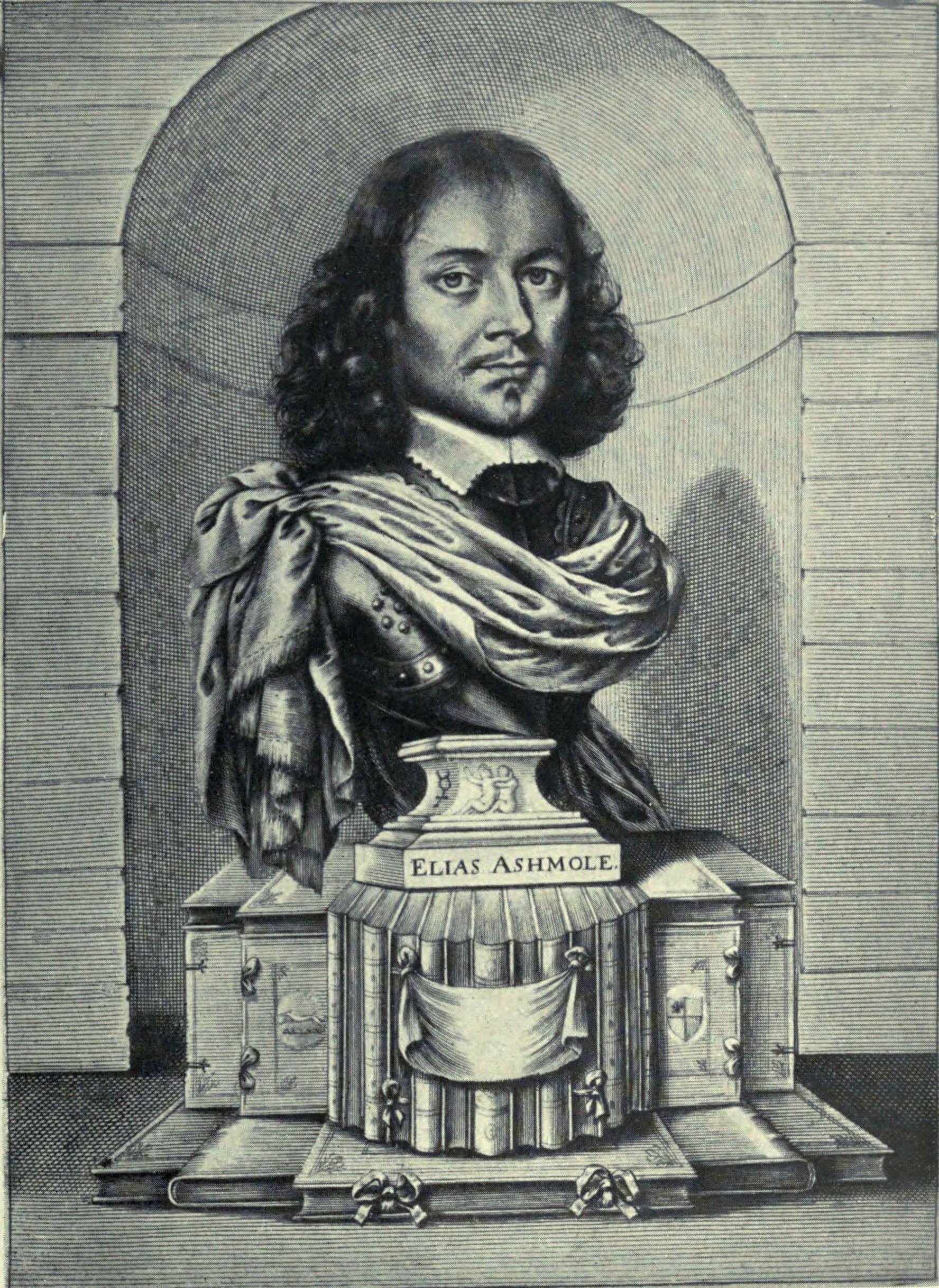 Illustration from PD book, of character playing a role in the "history" of Freemasonry